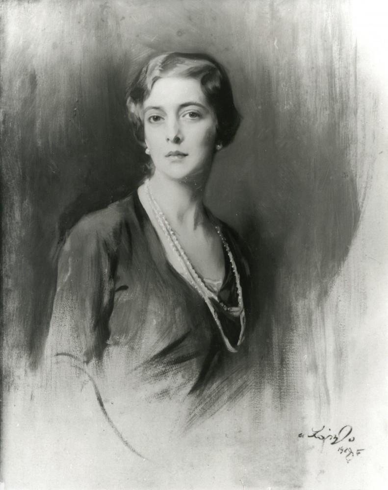 Study portrait of Princess Theodora of Greece and Denmark, later Margravine of Baden. Bust length, wearing a dark long-sleeved dress with earrings and a two-stranded pearl necklace